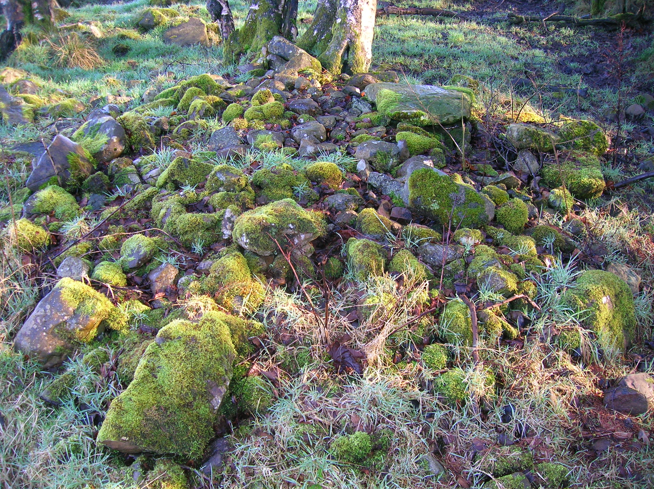 A clearance cairn at Eglinton Country Park, Irvine, North Ayrshire, Scotland